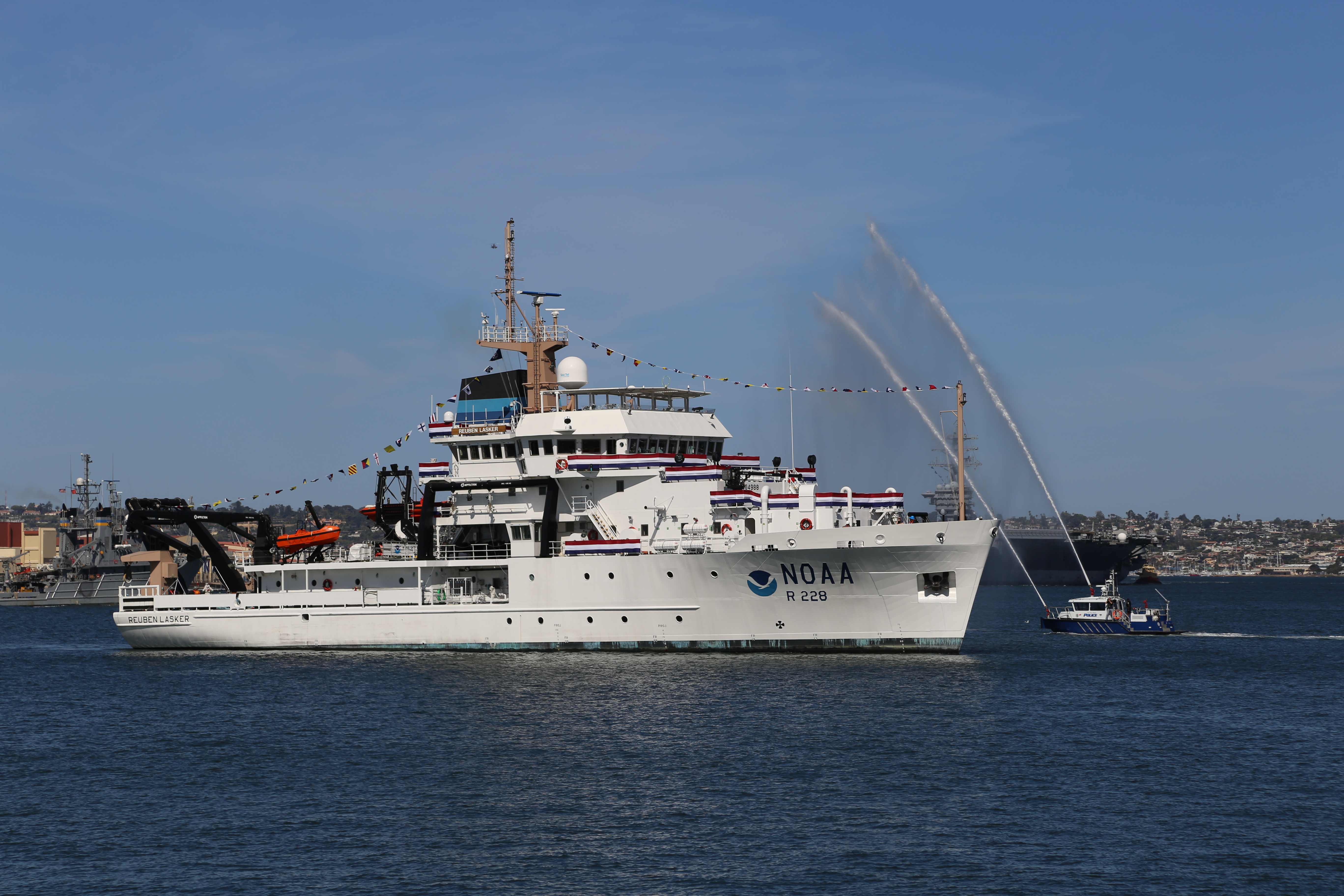 San Diego Harbor Police fire boat salutes NOAA Reuben Lasker, on May 1, 2014. Cropped at: File:San Diego Harbor Police fire boat salutes NOAA Reuben Lasker, on May 1, 2014 (cropped).jpg